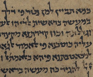 Part of the "Guide of the Perplexed" by Maimonides